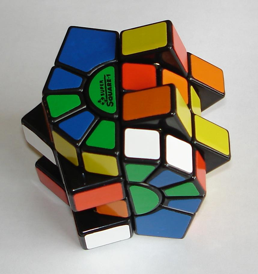 The Super Square-1 in a scrambled state.